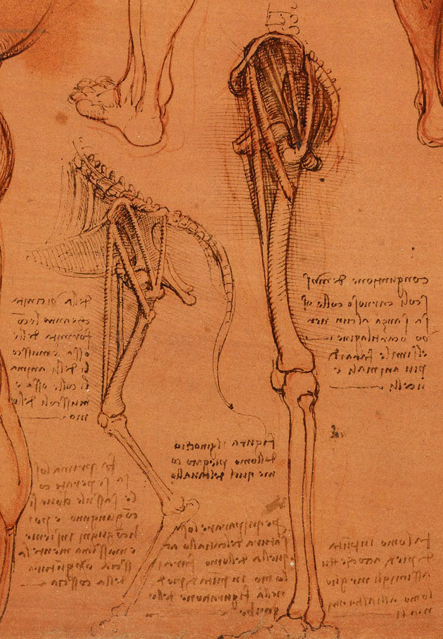 Leonardo da Vinci, Drawing of the comparative anatomy of the legs of a man and a dog